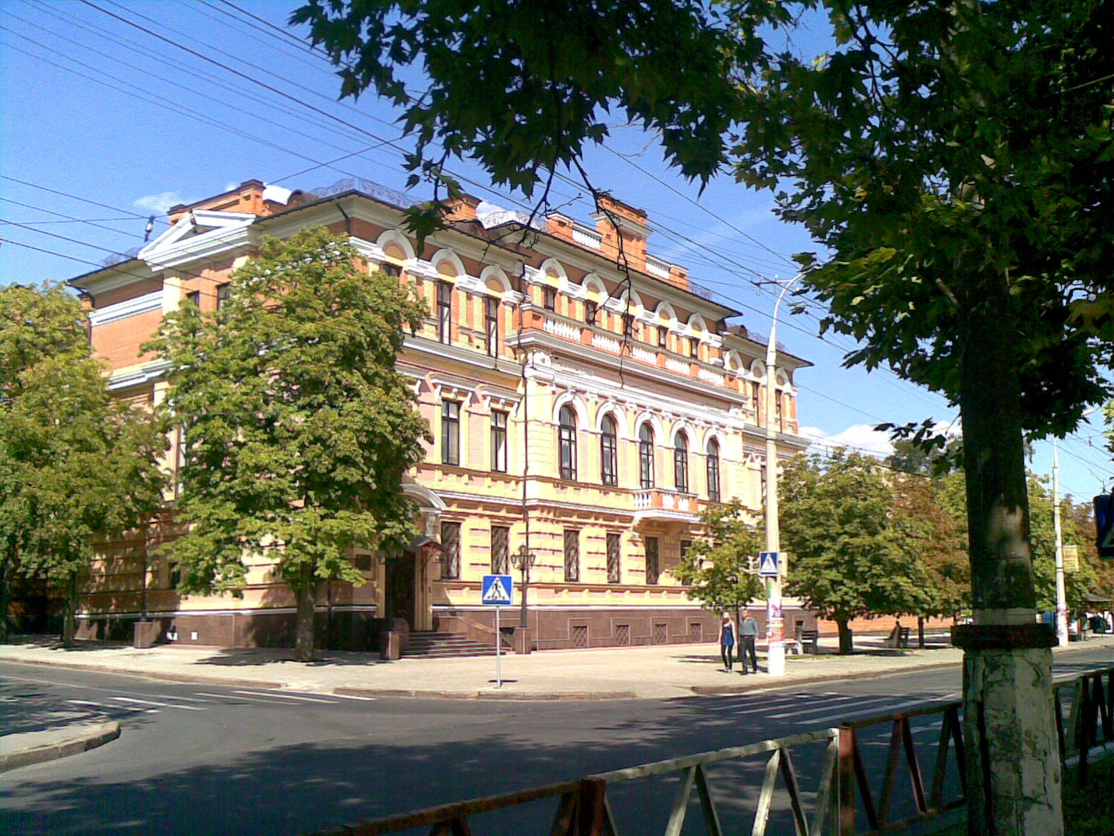 Kherson_Central_Bank02